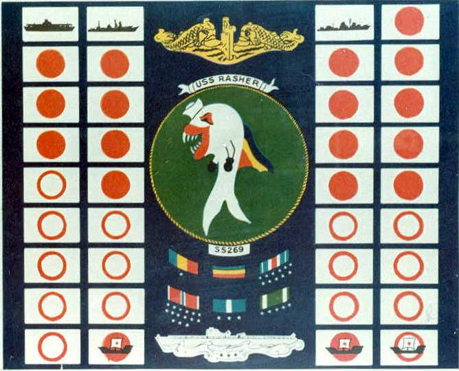 USS_Rasher; Battleflag of the Rasher (SS-269), 1945. USN photo courtesy of .